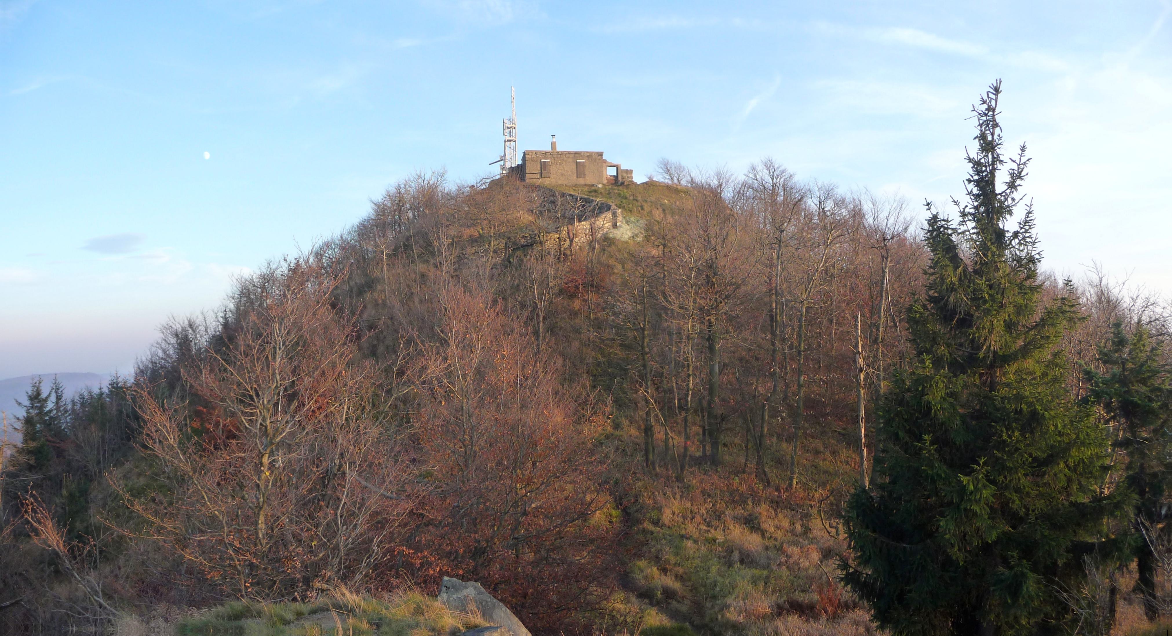 The top of the Luž/Lausche Mountain.